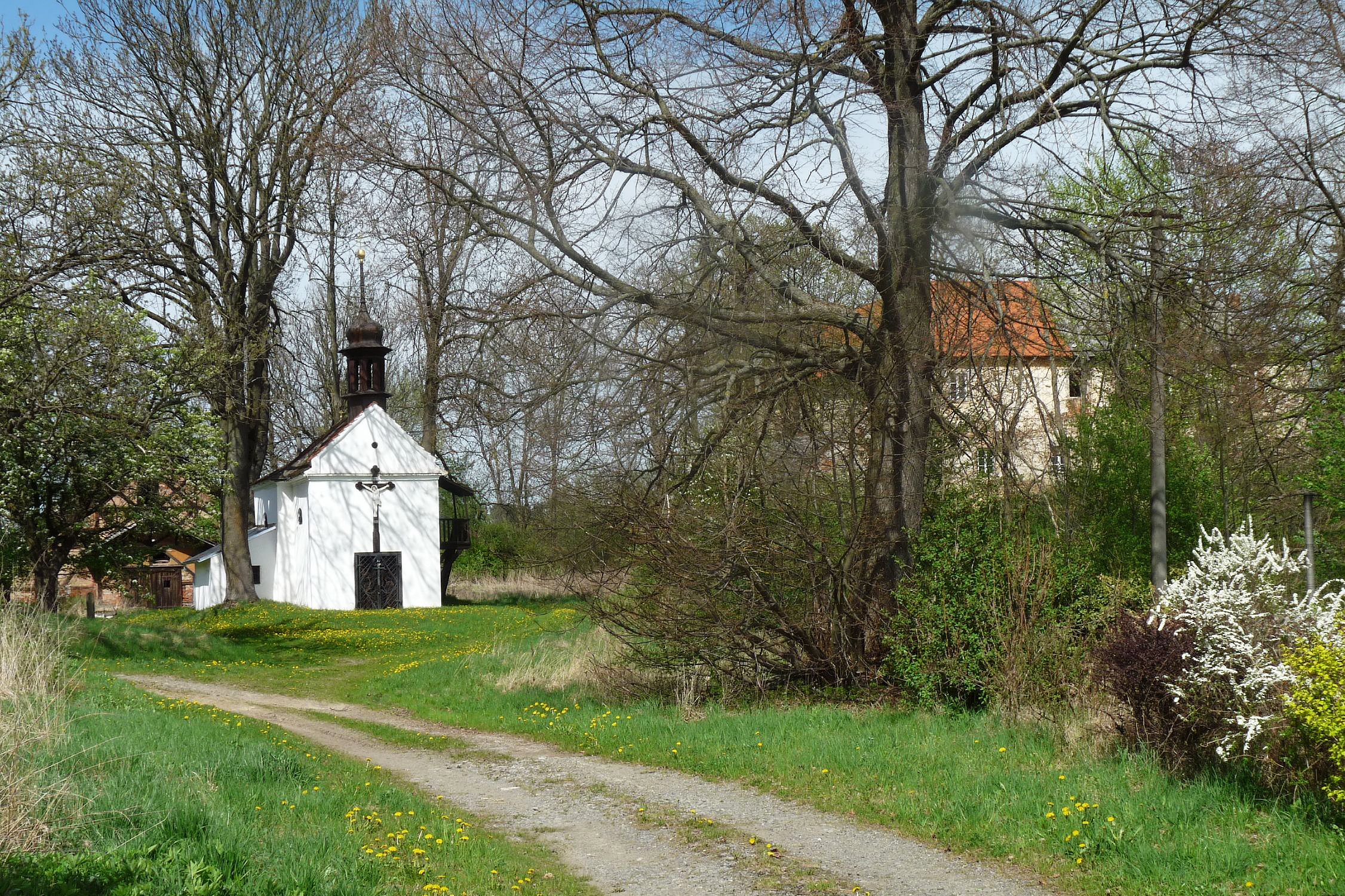 Saint Anne Chapel and the Opálka Fort in the village of Opálka, part of the town of Strážov, Klatovy District, Czech Republic